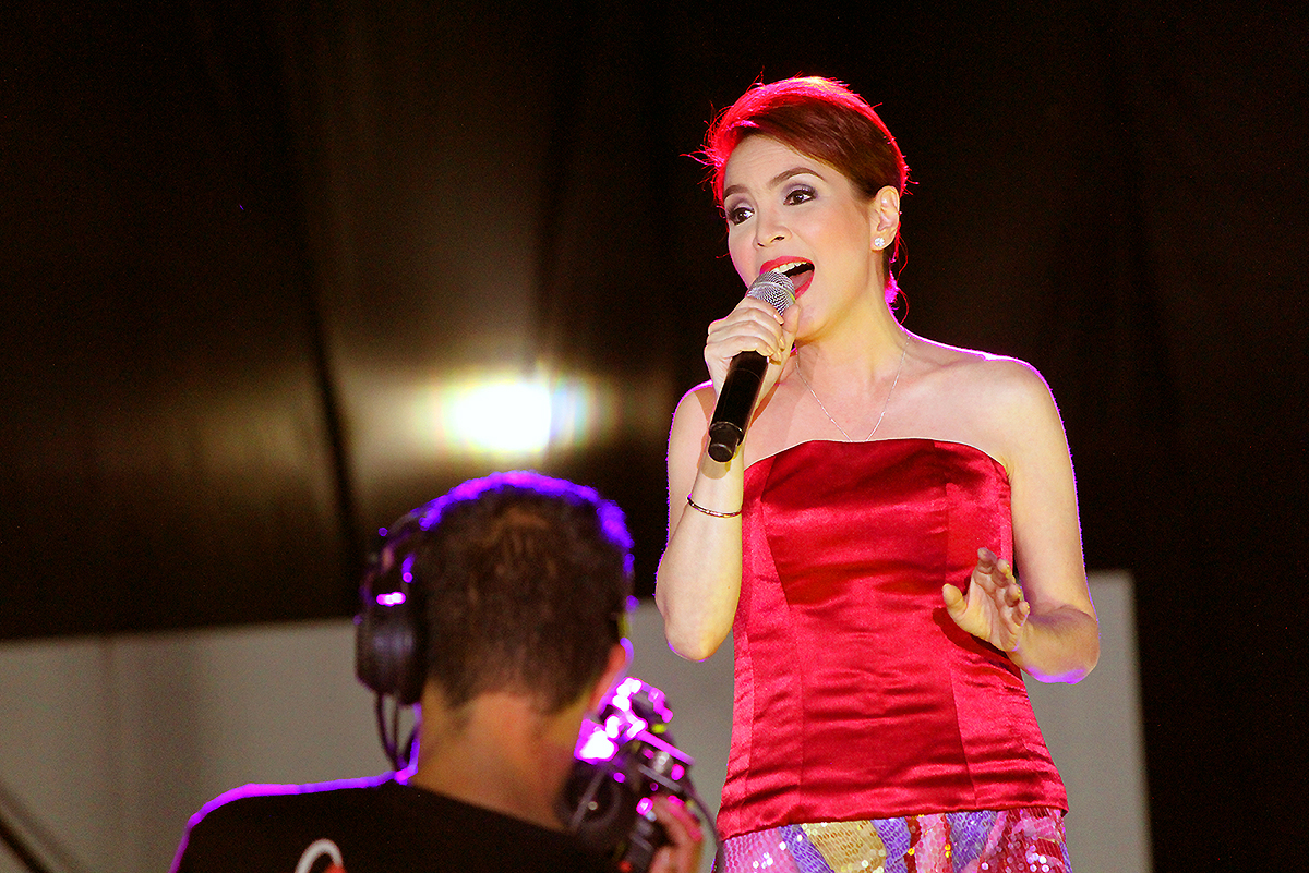 Delightful moments with popular singer Jamie Rivera at "Queen Isabela Park" City of Ilagan, Isabela, Philippines. "Awit Pasasalamat 2015" June 12, 2015.